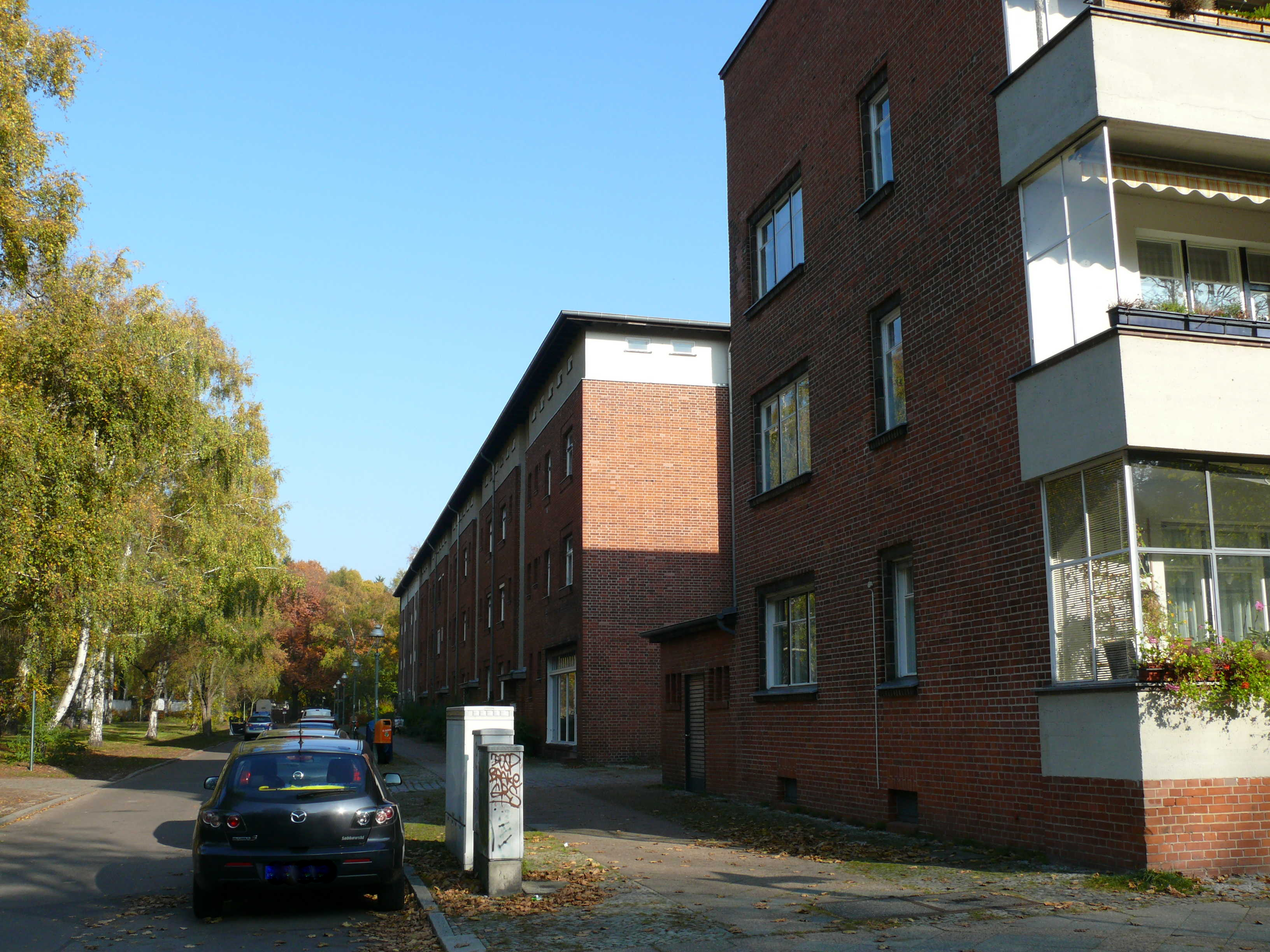 Berlin-Wedding Oxforder Straße